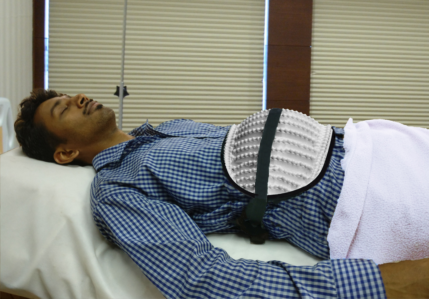 A patient wearing the Super Ventilator designed by Supervasi Foundation. Photo taken in hospital located in Thane, Maharashtra, India.